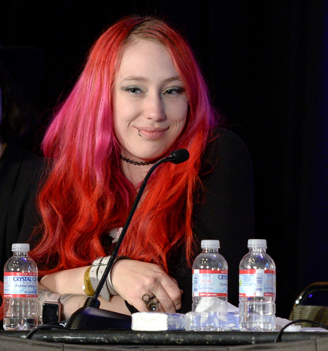 Zoe Quinn at "Ripple Effect: How Women-in-Games Initiatives Make a Difference", Thursday, 17 March 2016